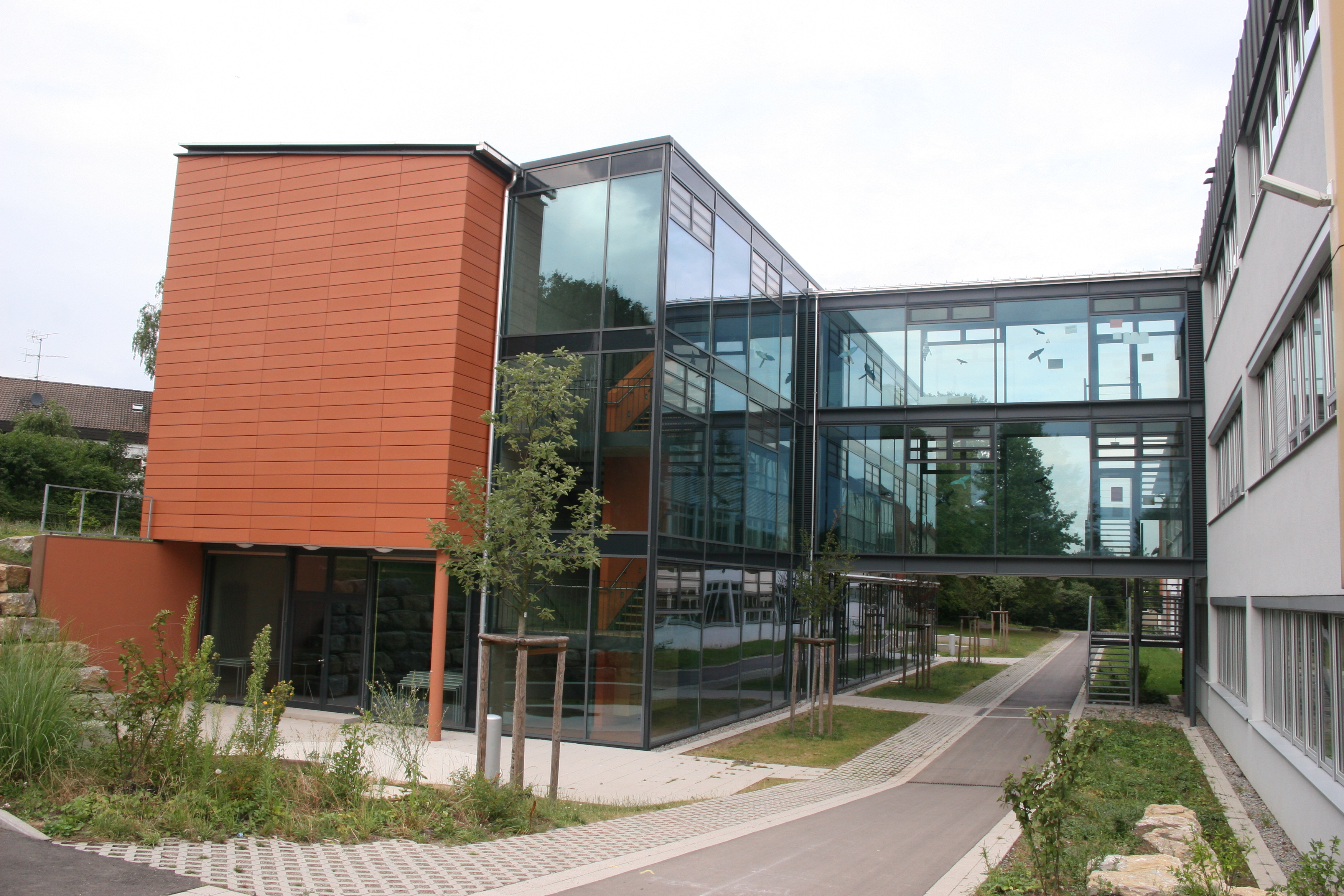 New building of the Zabergäu-Gymnasium in Brackenheim